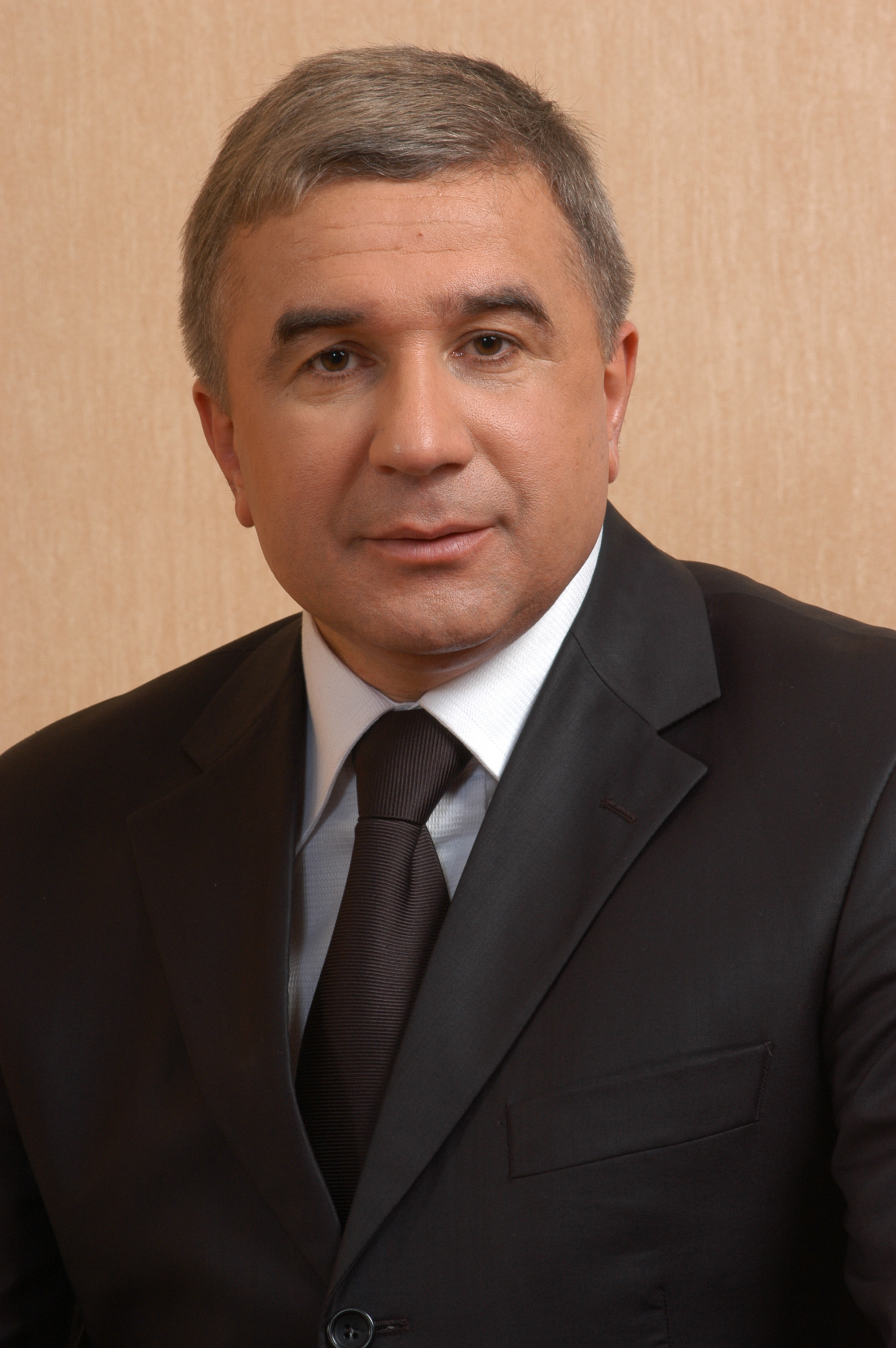 Украинский тренер